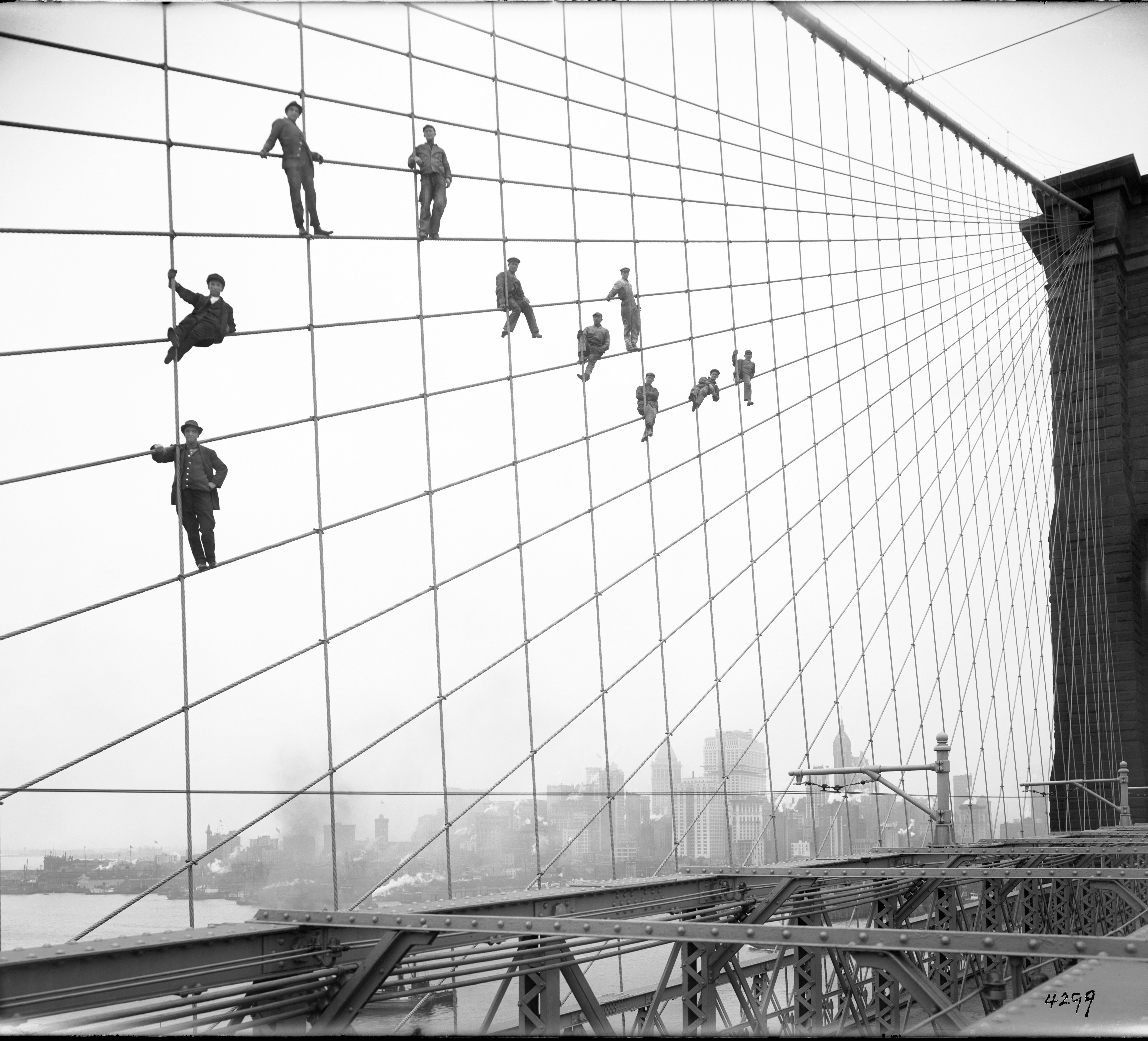 Painters suspended on cables of the Brooklyn Bridge, on 07 October 1914. A group portrait of the painters can also be found in the NYC Municipal Archives - Image ID: bps_04299